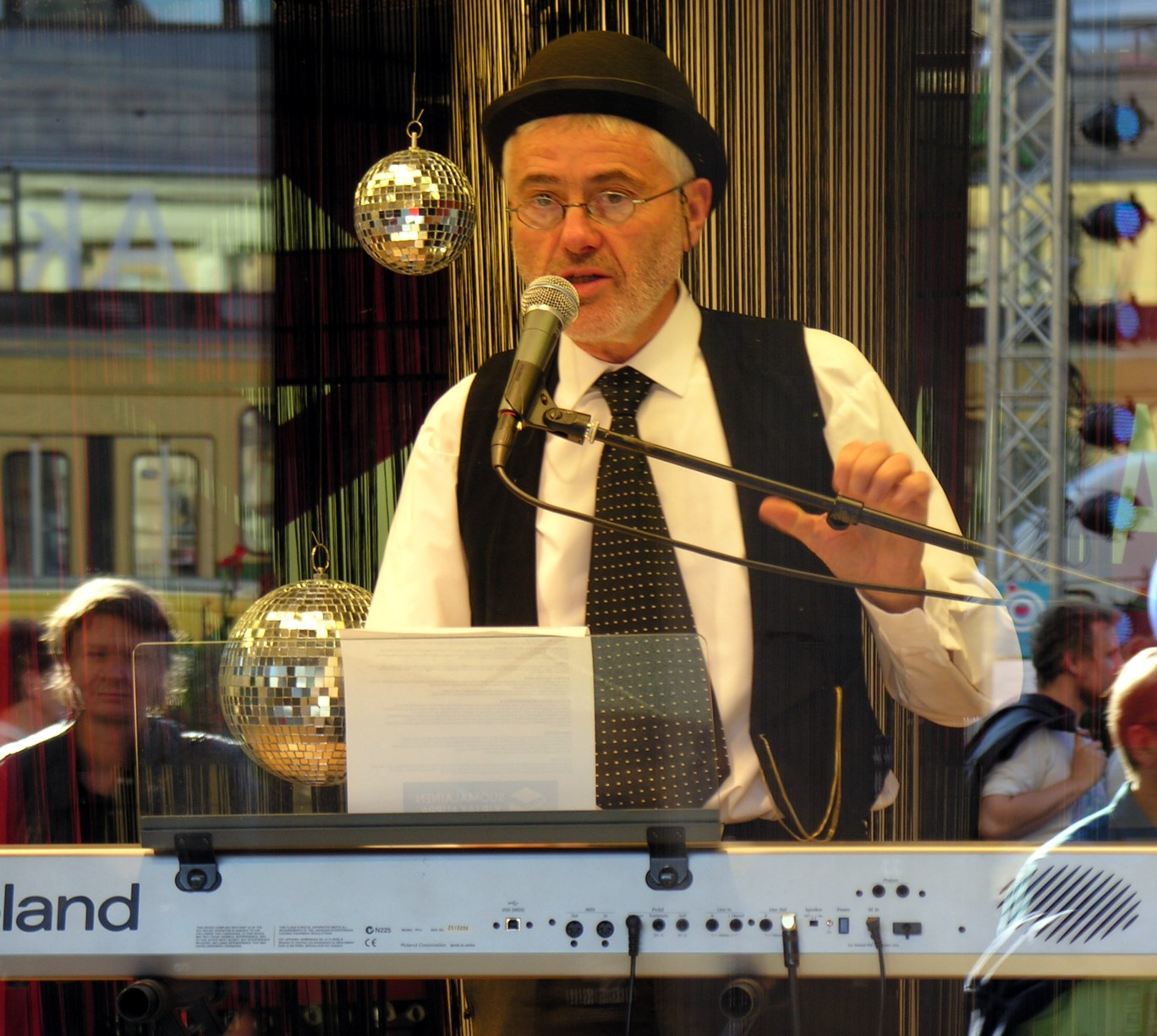 Hillel Tokazier performing in a shop window on the Night of the Arts in Helsinki in 2008.